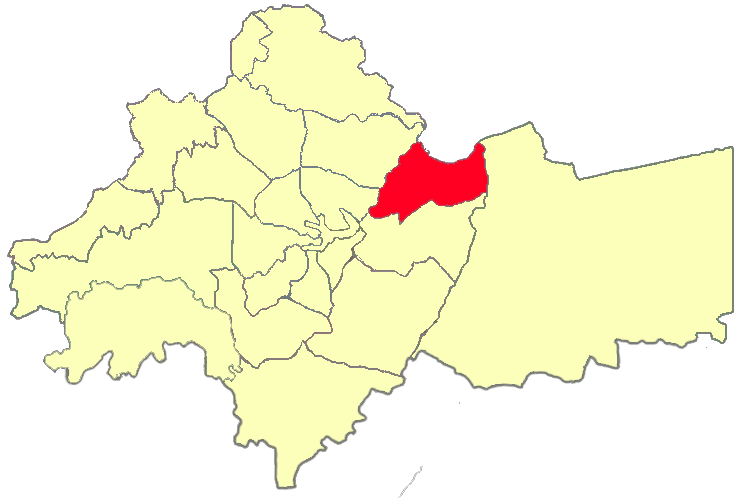 Amman districts